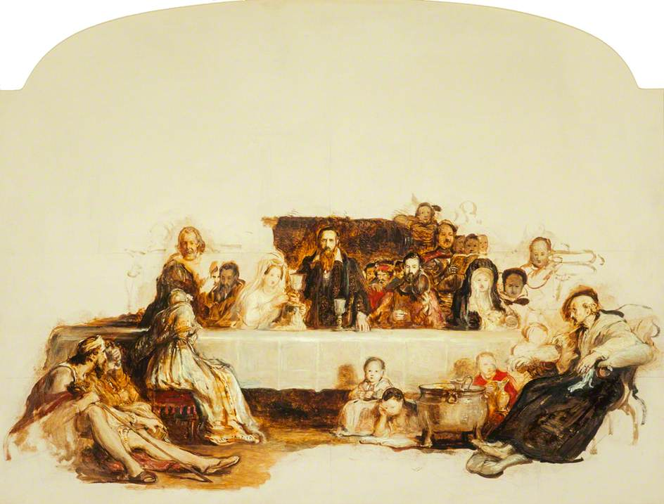 Photograph of painting, Study for 'John Knox Dispensing the Sacrament at Calder House' by David Wilkie